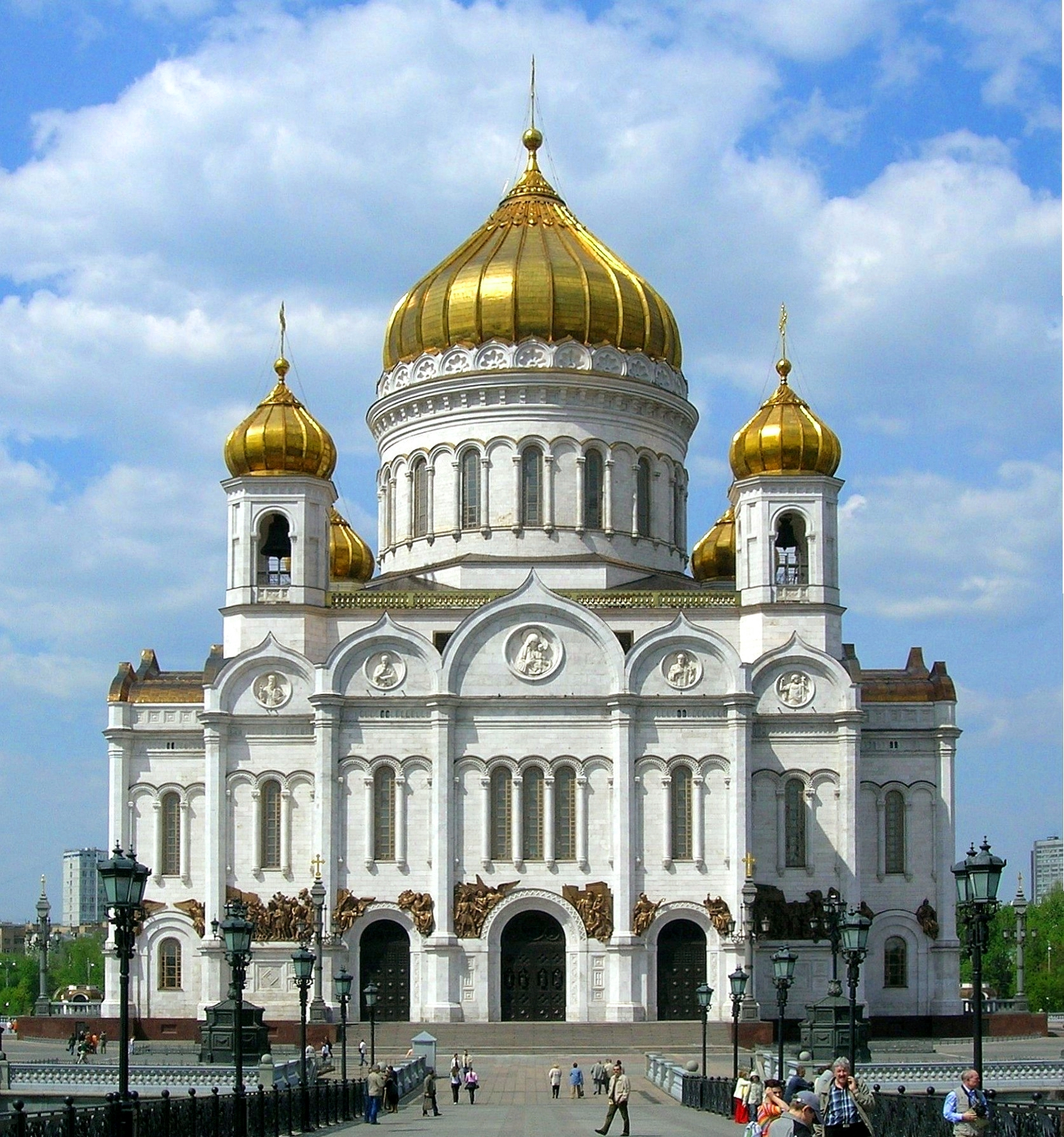 Christ the Savior Cathedral in Moscow, Russia.